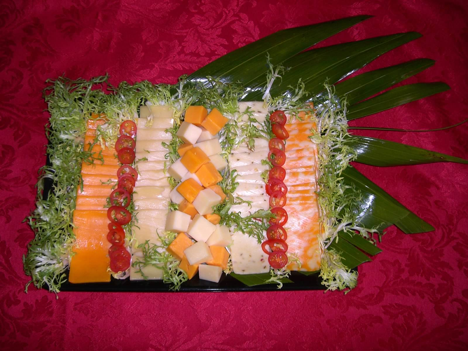 Cheese tray garnished with red pepper rings and chicory